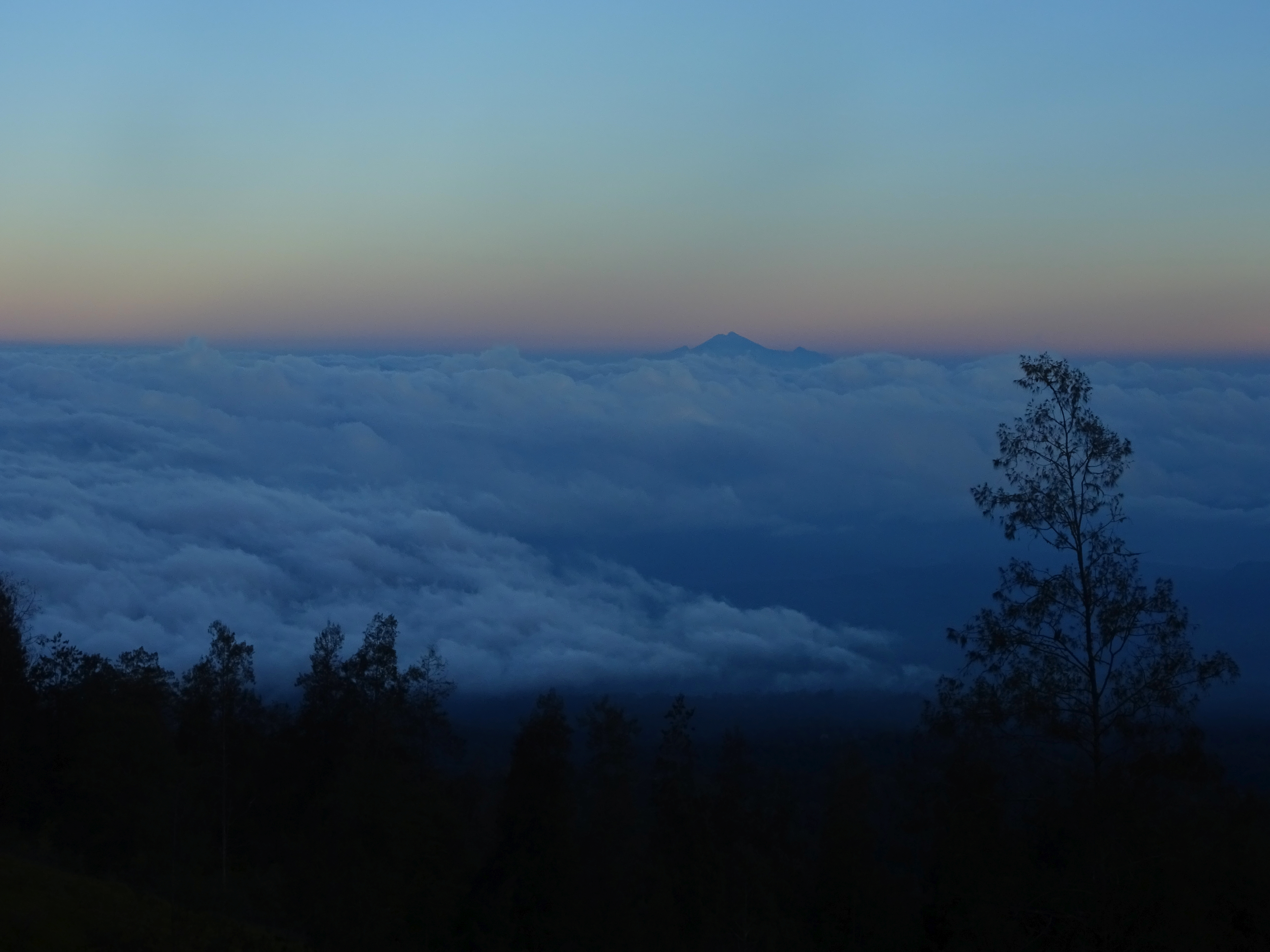 View of Mount Rinjani from Mount Tambora - Lesser Sunda Islands - Indonesia. The viewing distance between the summit of Rinjani and the point where the photo was taken is 165 km or about 103 miles.